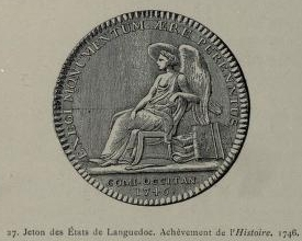 Medallion issued by the Etats de Languedoc, 1746, commemorating the completion of the Histoire générale de Languedoc